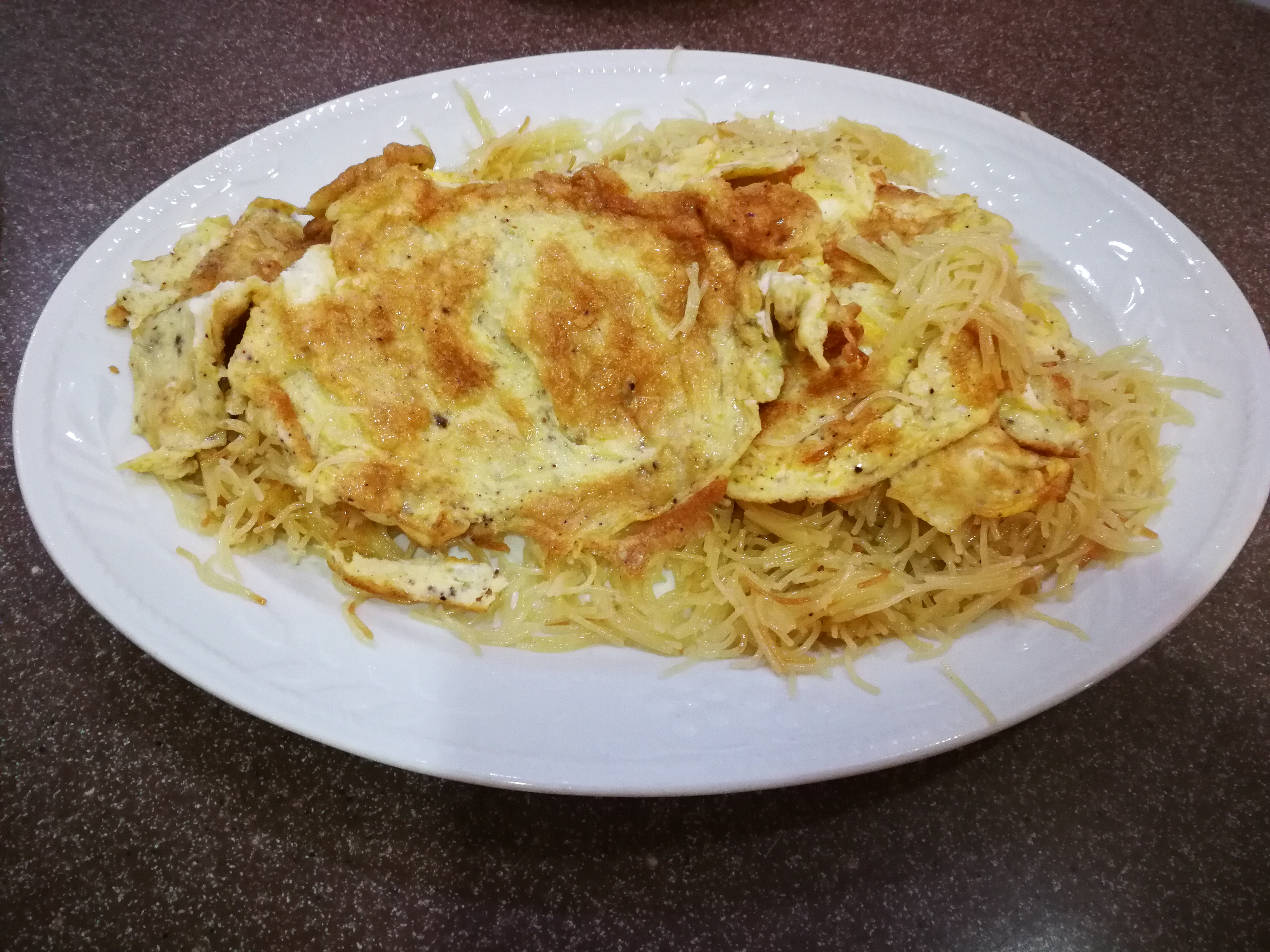 A plate of homemade balaleet, a traditional dish popular in the Persian Gulf, consisting of sweet vermicelli served with overlying egg omelettes for a sweet and savoury taste.